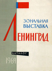 Cover of the catalog of Zonal Exhibition of works by Leningrad artists of 1964